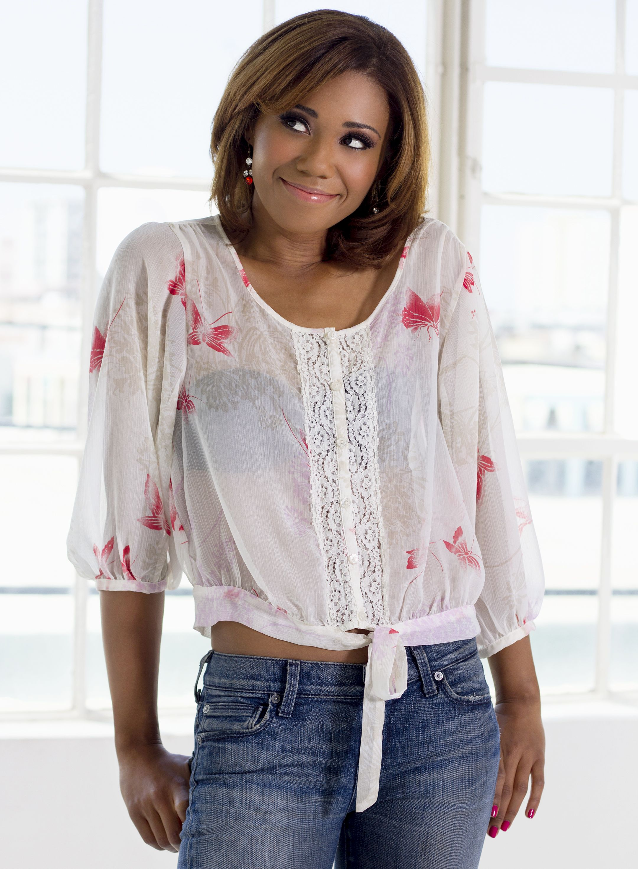 Toks Olagundoye pictured in 2013